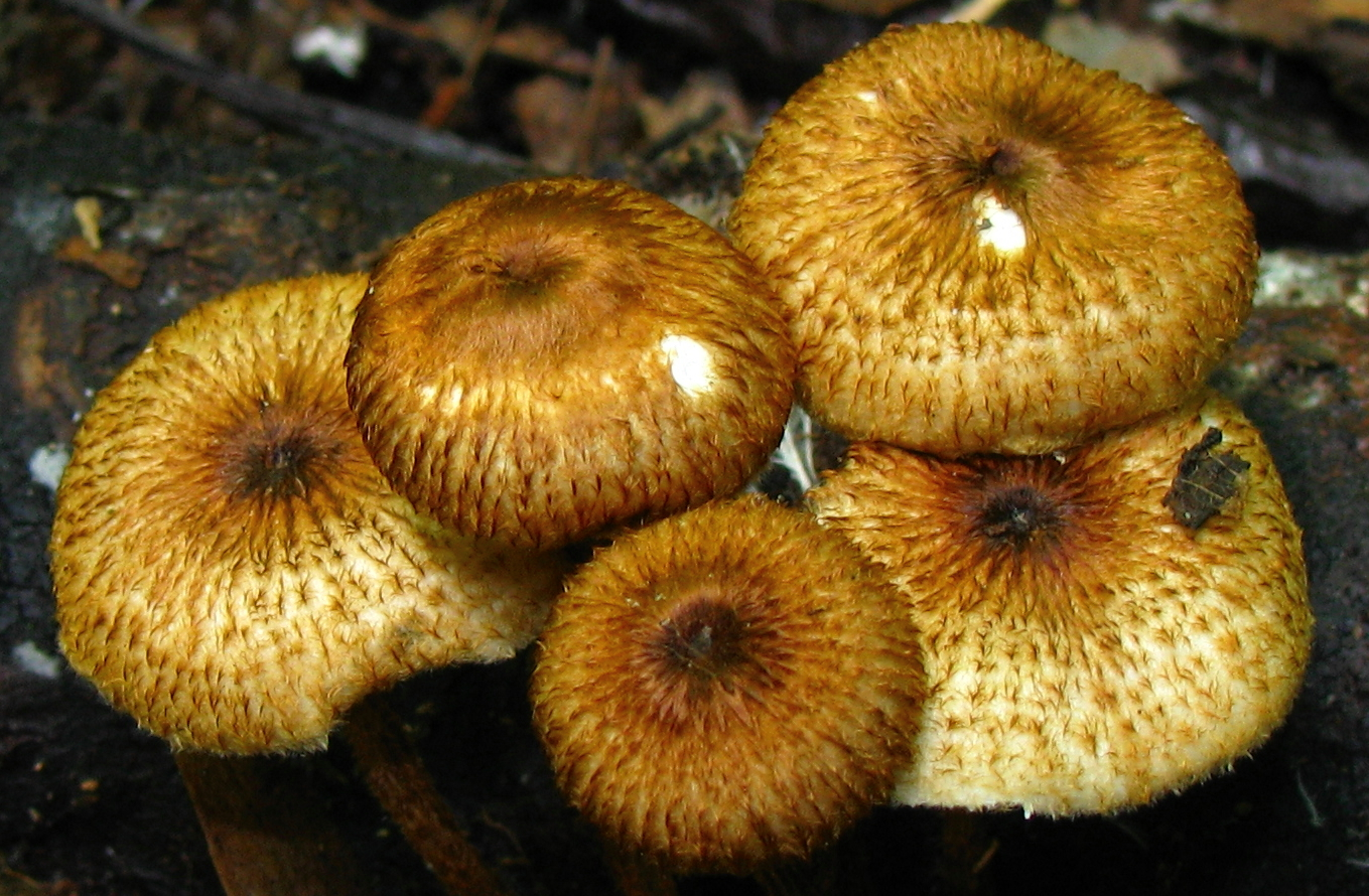 A cluster of fruit bodies of the fungus Crinipellis zonata (Peck.) Sacc. Specimens photographed in Strouds Run State Park, Athens, Ohio, USA.